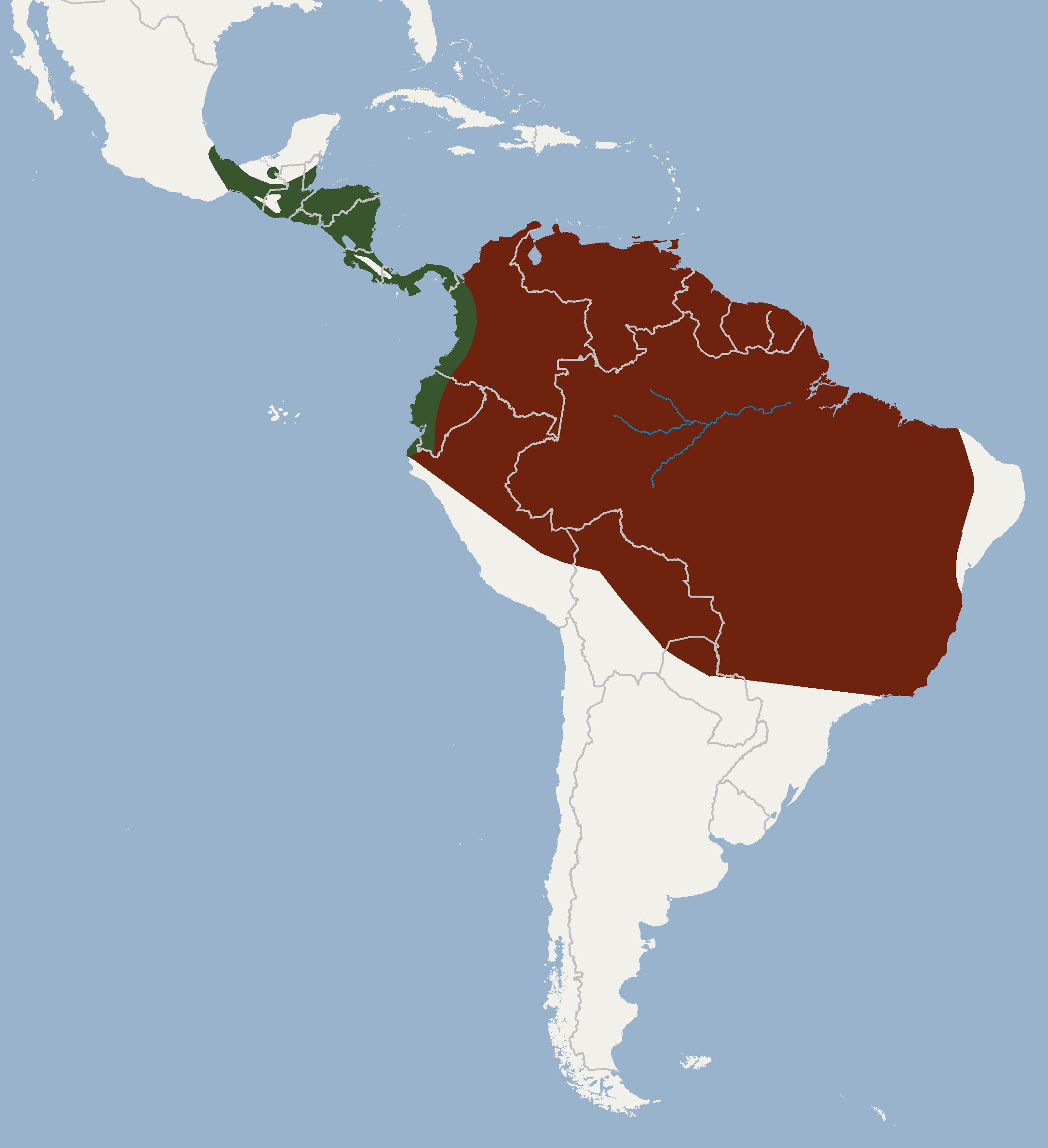 Geographical distribution of Phyllostomus discolor according to Gardner AL, 2008 and Reid FA, 2009 P.d.discolor P.d.verrucosus